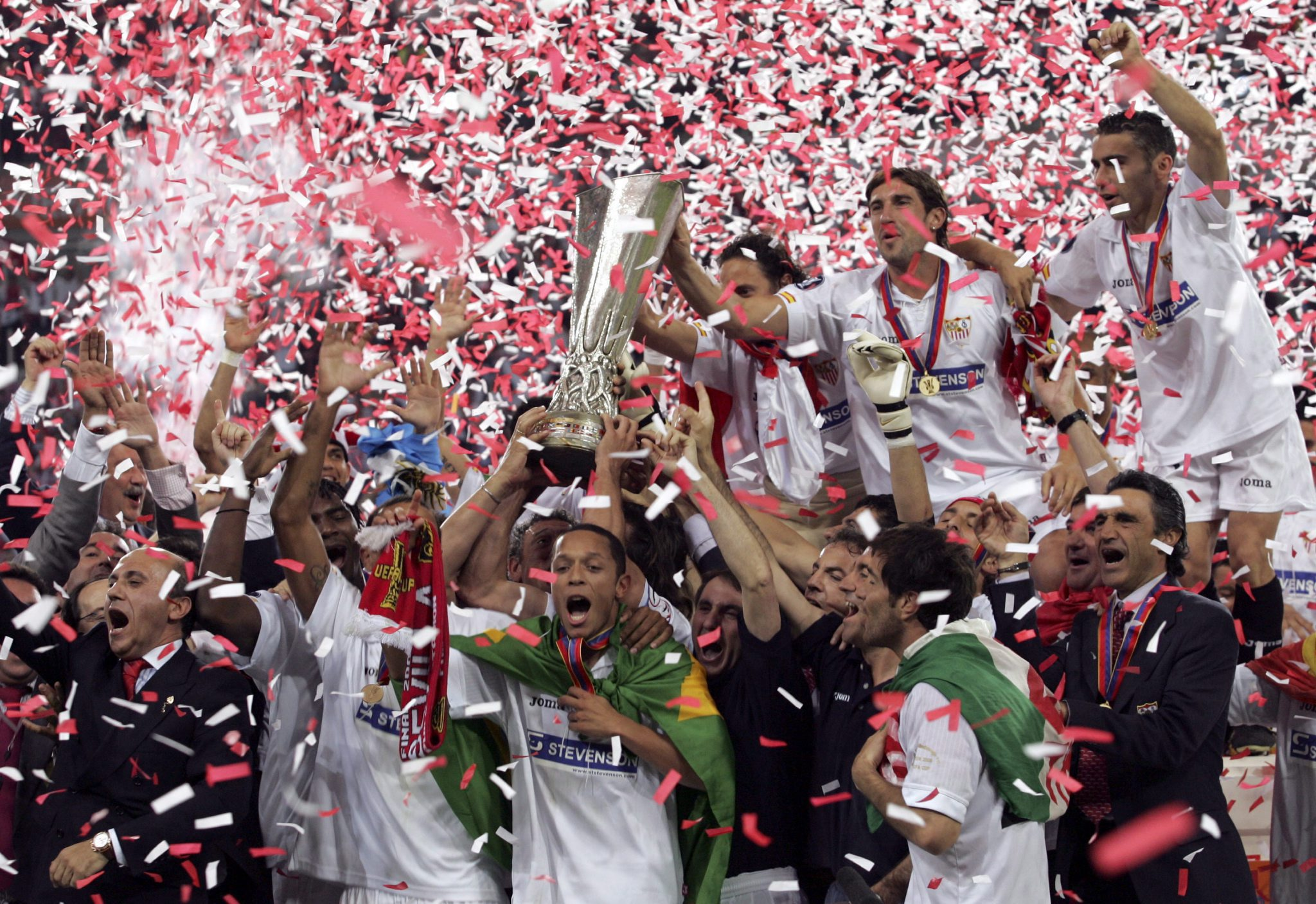 Players of Sevilla FC celebrate with the UEFA Cup trophy after the UEFA Cup soccer final against Middlesbrough FC at the Philips Stadium in Eindhoven, Netherlands, Wednesday 10 May 2006. Sevilla won 4-0.